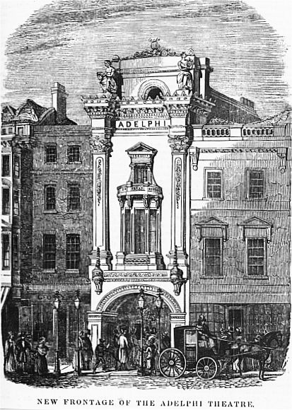 Façade of the Adelphi Theatre, London, by Samuel Beazley, depicted in "New Frontage of the Adelphi Theatre", Mirror of Literature, Amusement, and Instruction, 7 November 1840, p.289